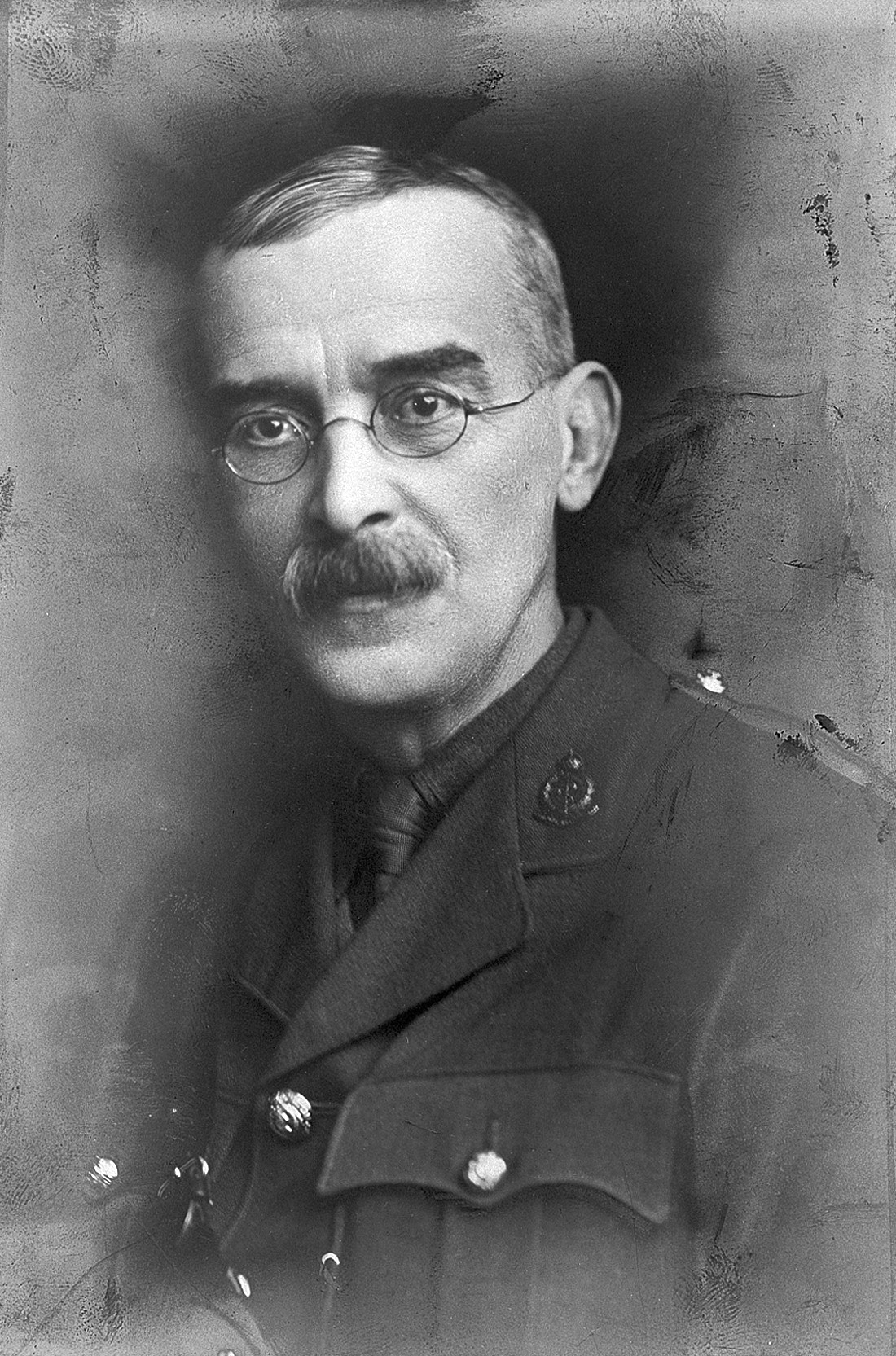 John William Watson Stephens. Photograph. Iconographic Collections